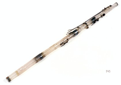 MDMB0145, Claude Laurent, Museu de la Música de Barcelona